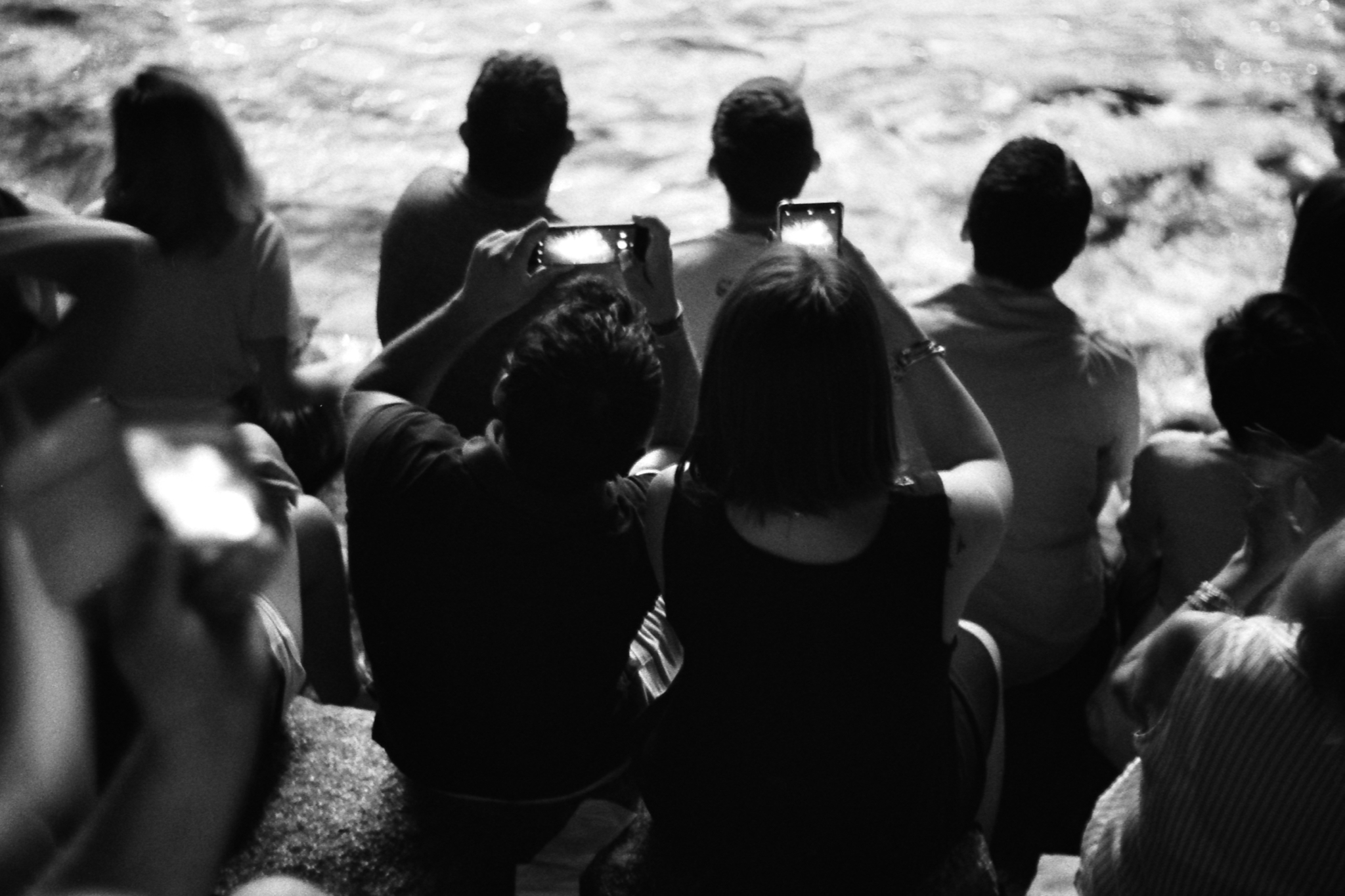 People looking at the Luci e Ombre fireworks in Locarno (scan from negative, Kentmere 400@800, Leica M3, Summitar 5cm f/2).